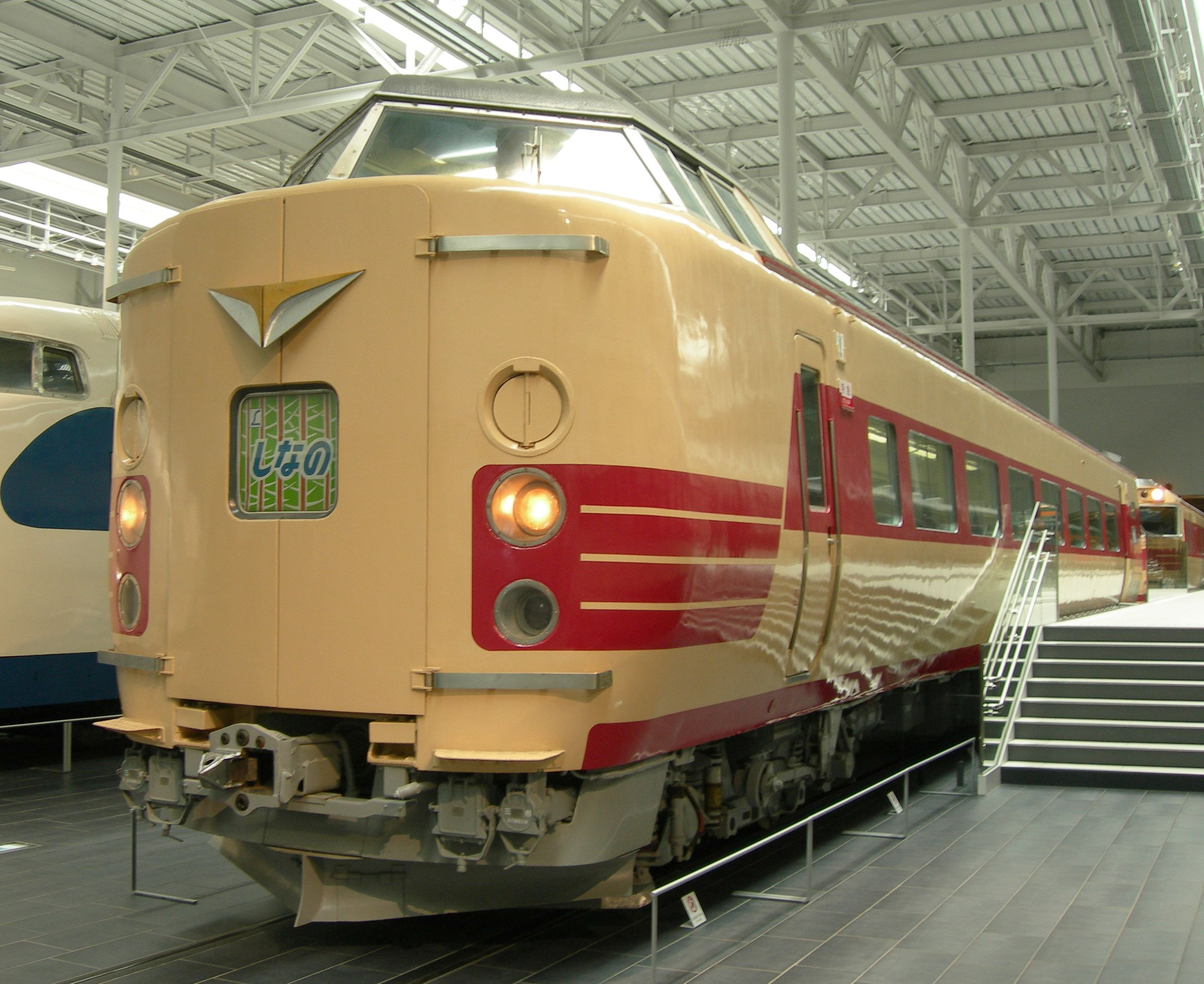 Former JR Central 381 series EMU car KuHa 381-1 preserved at the SCMaglev and Railway Park in Nagoya, Japan